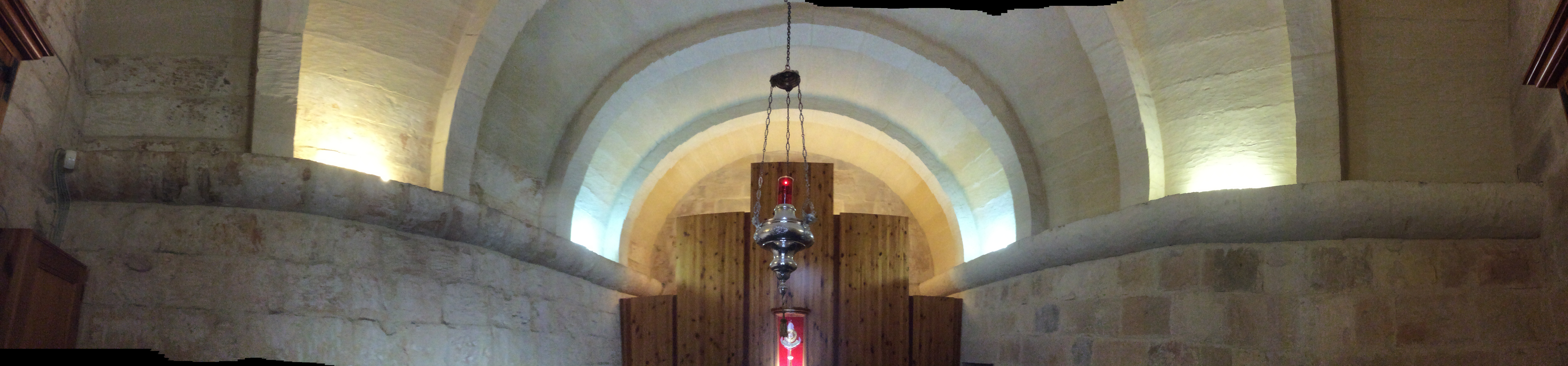 Sta Margerita Chapel